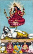 "Album of popular prints mounted on cloth pages. Colour lithograph, lettered, inscribed and numbered 37. The print is subdivided into ten equal parts, each representing one of the ten aspects of Devi, the divine mother. Each image is identified with a Bengali inscription, and the goddesses represented are: Kali, Tara, Shodashi, Bhuvaneshvari, Bhairavi, Chhinnamasta, Dhumavati, Bagalamukhi, Matangi, and Kamala. 2003,1022,0.37, AN804243 "